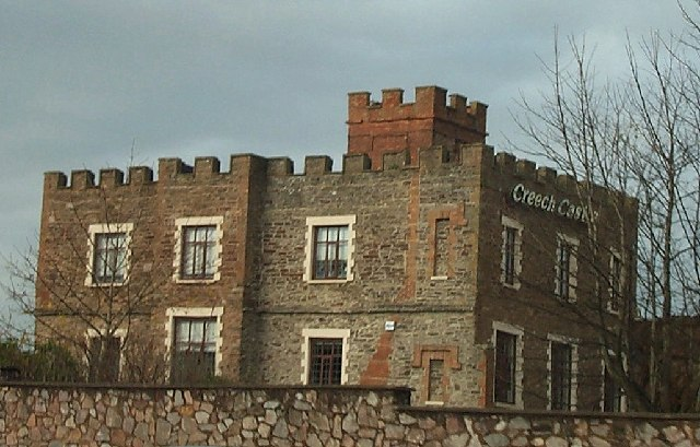 The Creech Castle Hotel in Taunton.